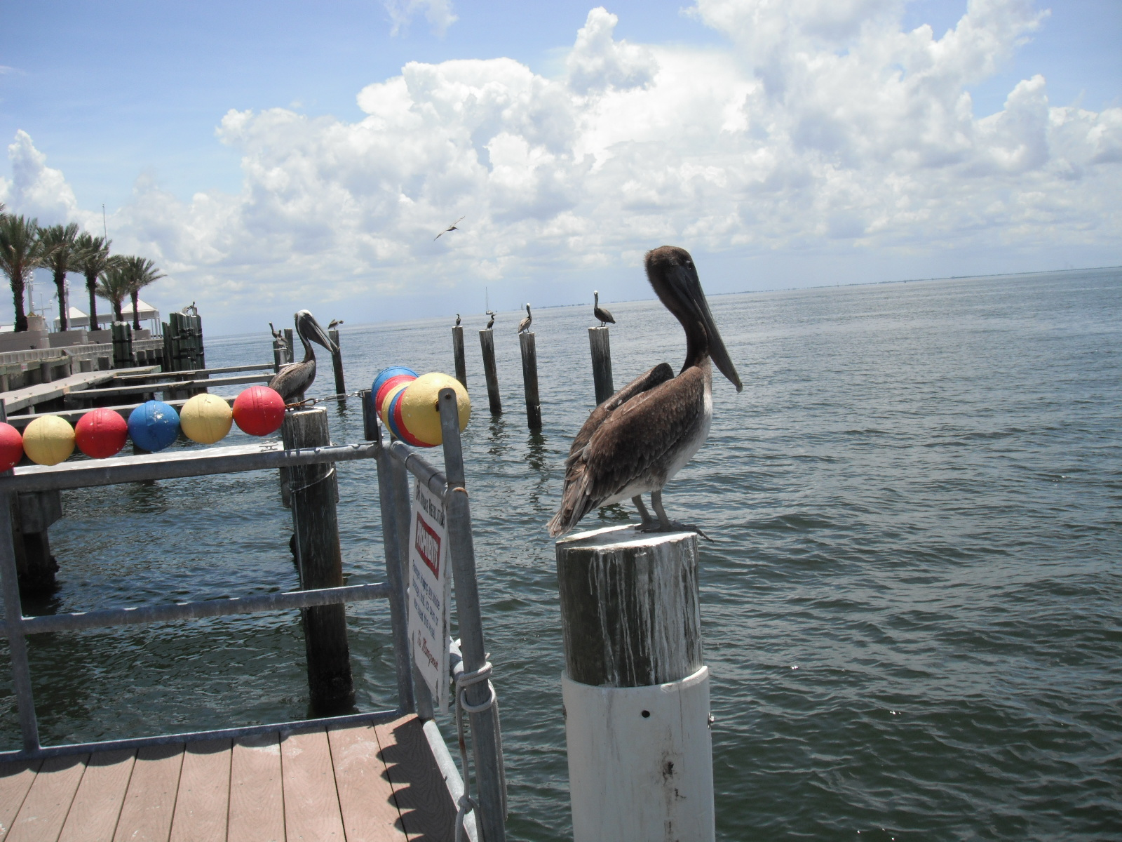 Saint Petersburg, Florida, at the Pier